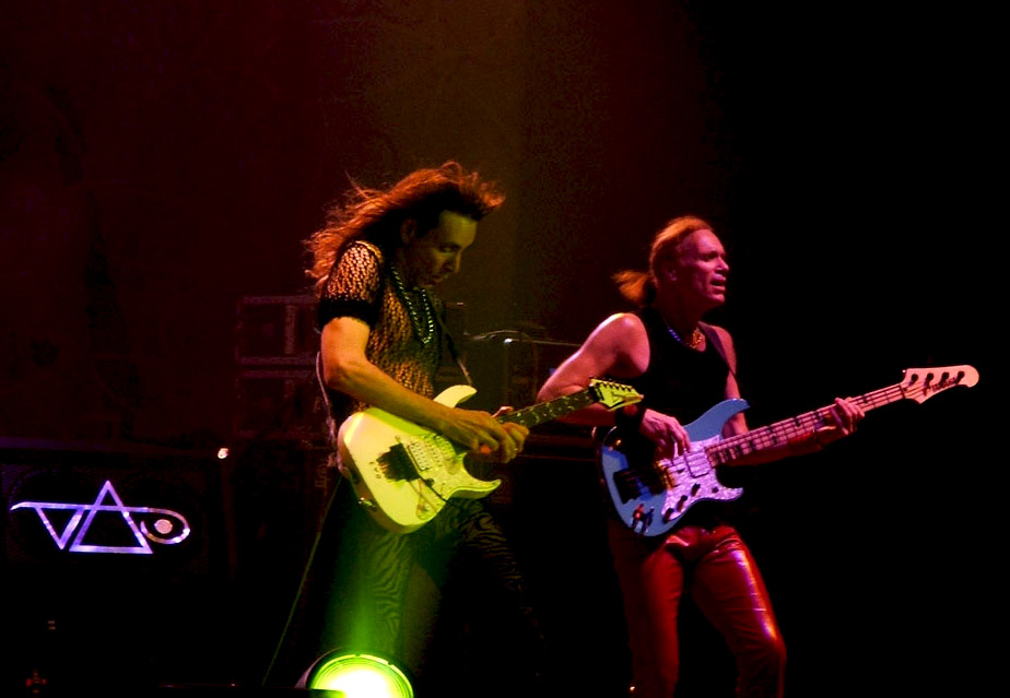 Steve Vai and Billy Sheehan in Milan (Alcatraz), 25th September 2005.